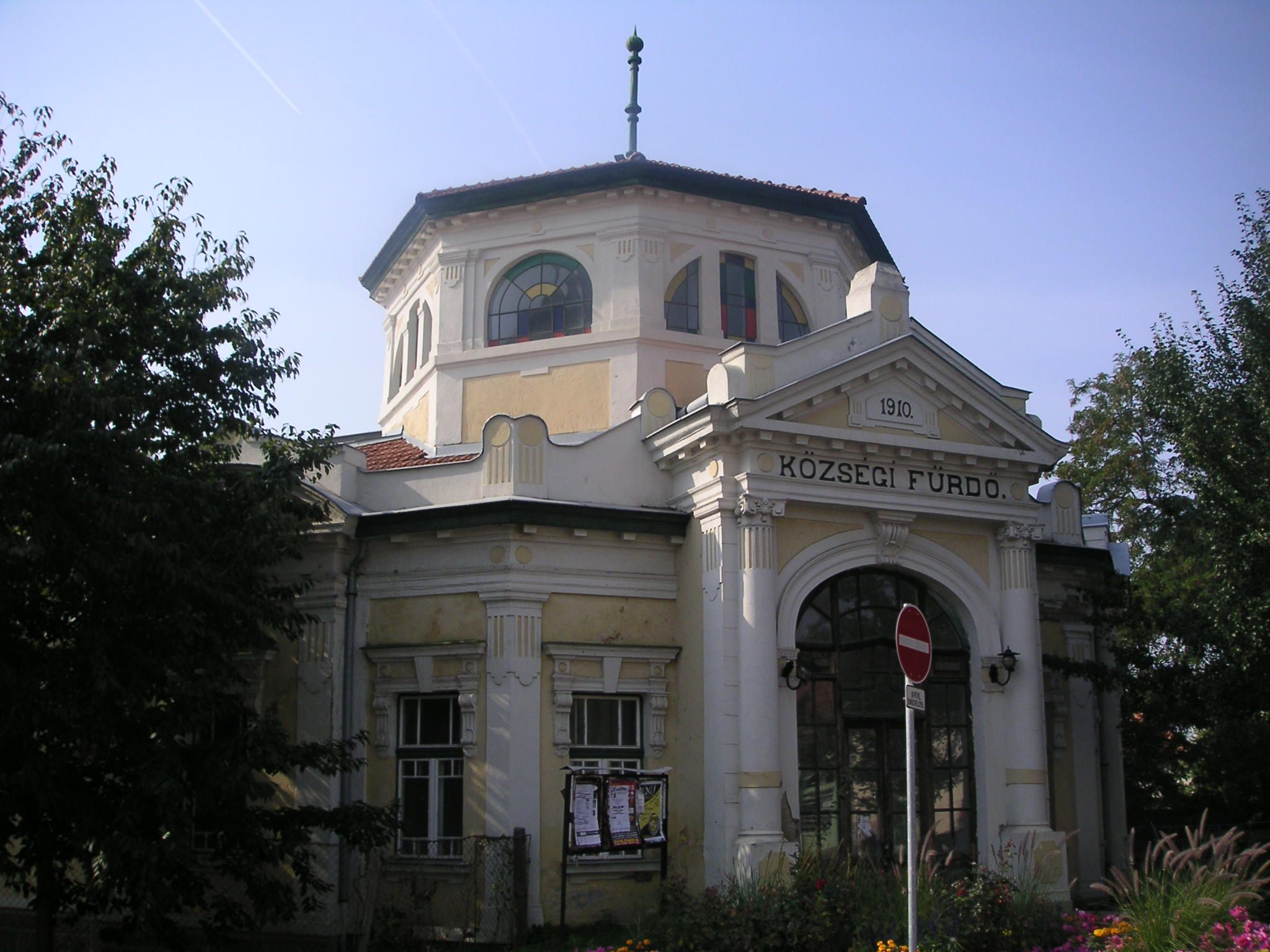 Szerencs, Hungary